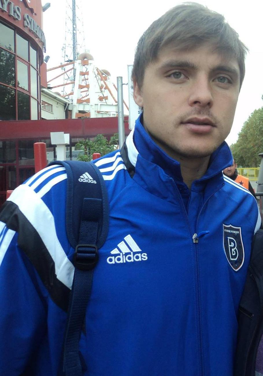 Alexandru Epureanu, Moldovan footballer.